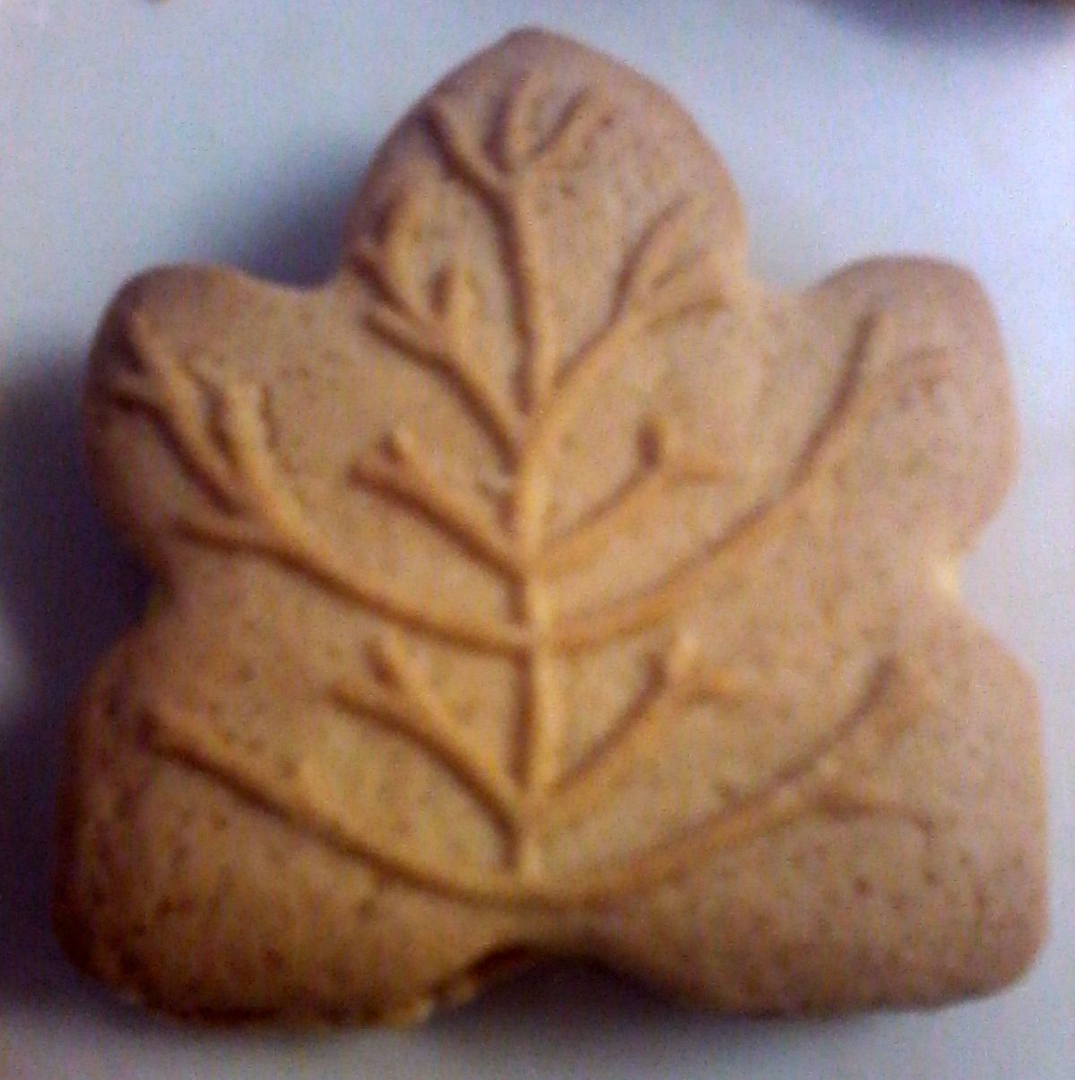 This is a picture of a maple leaf cookie: a cookie that is in the shape of a maple leaf and has creme in-between each side.